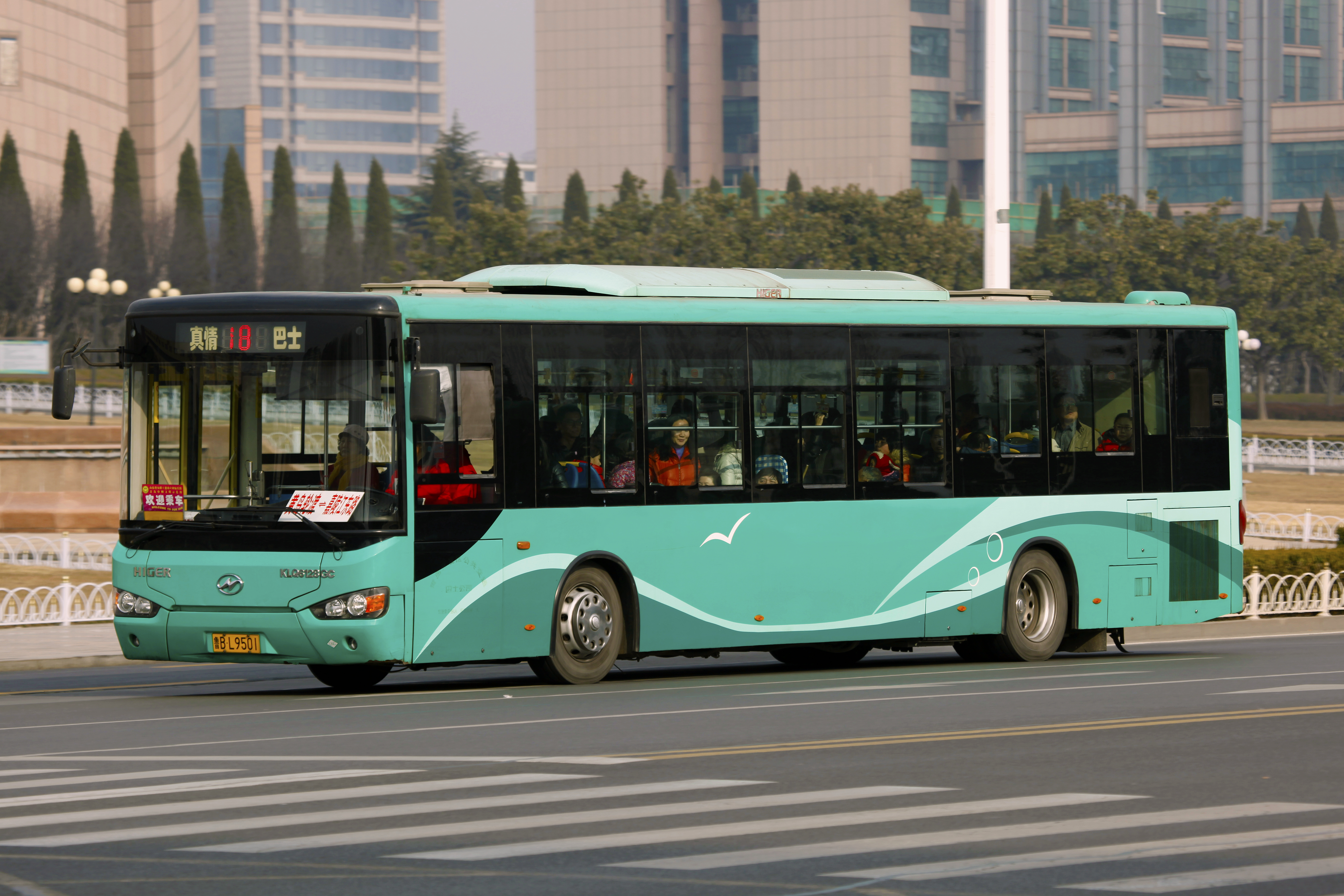 Qingdao Development Zone Bus 18 | Higer | KLQ6128GC (Wheelchair Accessible Low-floor) | ChangJiang Road (Middle) 青島真情巴士（黃島公交）18路 | 海格客車 | KLQ6128GC (無障礙低地板車輛) | 長江中路鳳山路